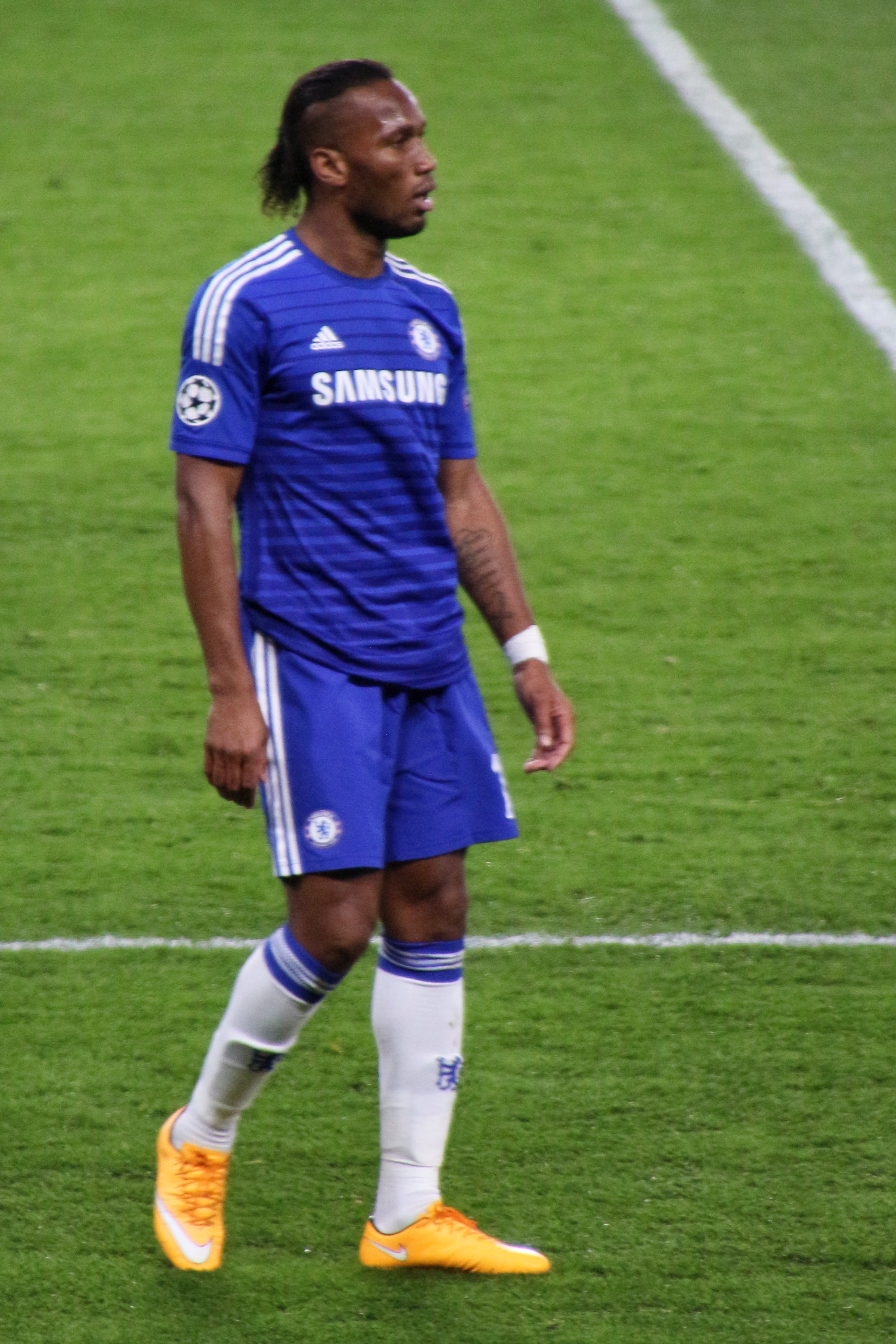 Chelsea 6 Maribor 0 Champions League